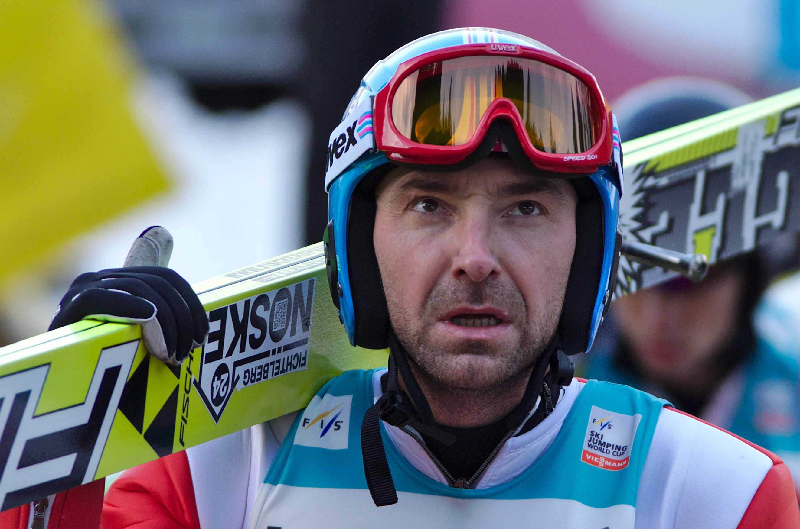 FIS Ski Jumping World Cup 2014 - Engelberg - 20141221 - Dimitry Vassiliev